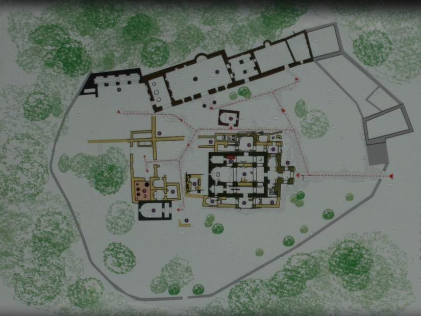 Ikalto complex. Plan